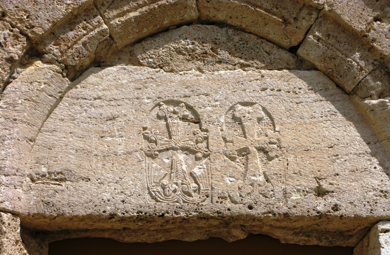 Portal of the church, Dzor Dzor Monastery, Iran.